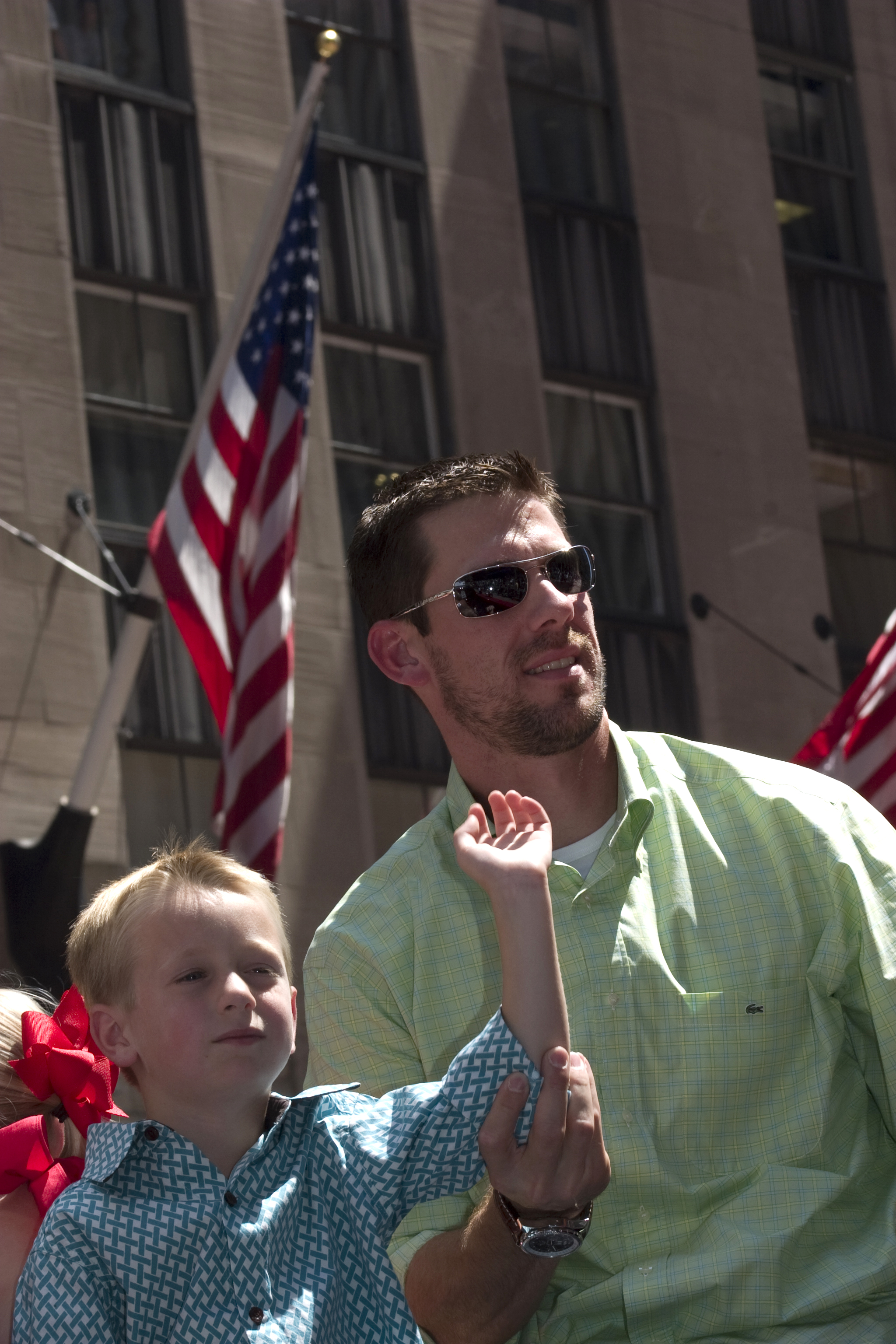 Baseball player Cliff Lee. © Rubenstein, photographer Martyna Borkowski